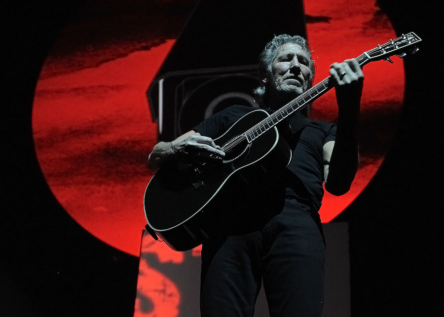 Roger Waters performing The Wall at the Scotiabank Place in Ottawa.Photo by: Brennan Schnell/Eastscene.com